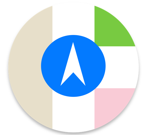 The logo of Apple Maps in WatchOS.